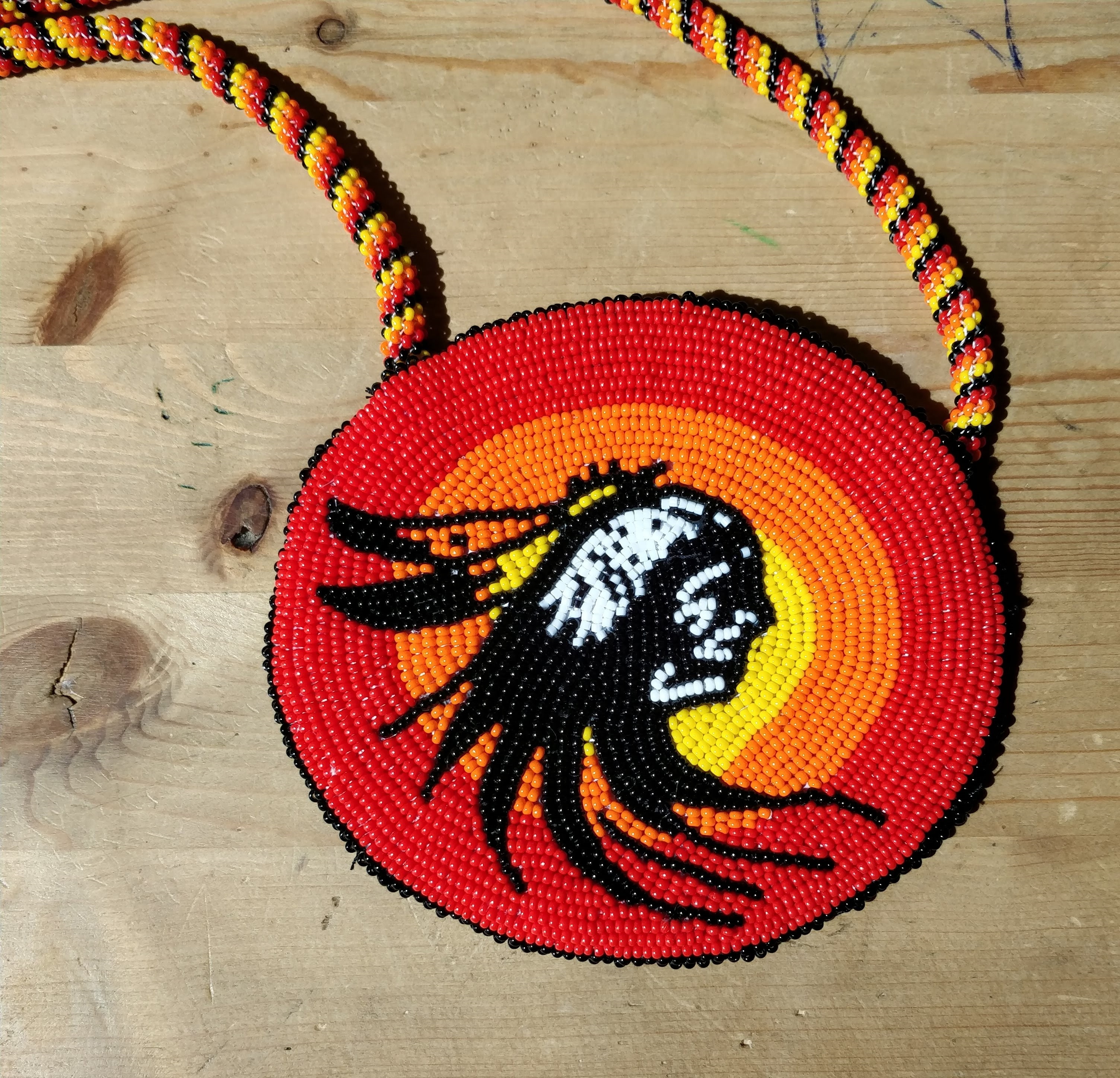 Masterfully beaded emblem of the Driftpile Cree Nation, Alberta, Canada. Photograph taken at the band office.